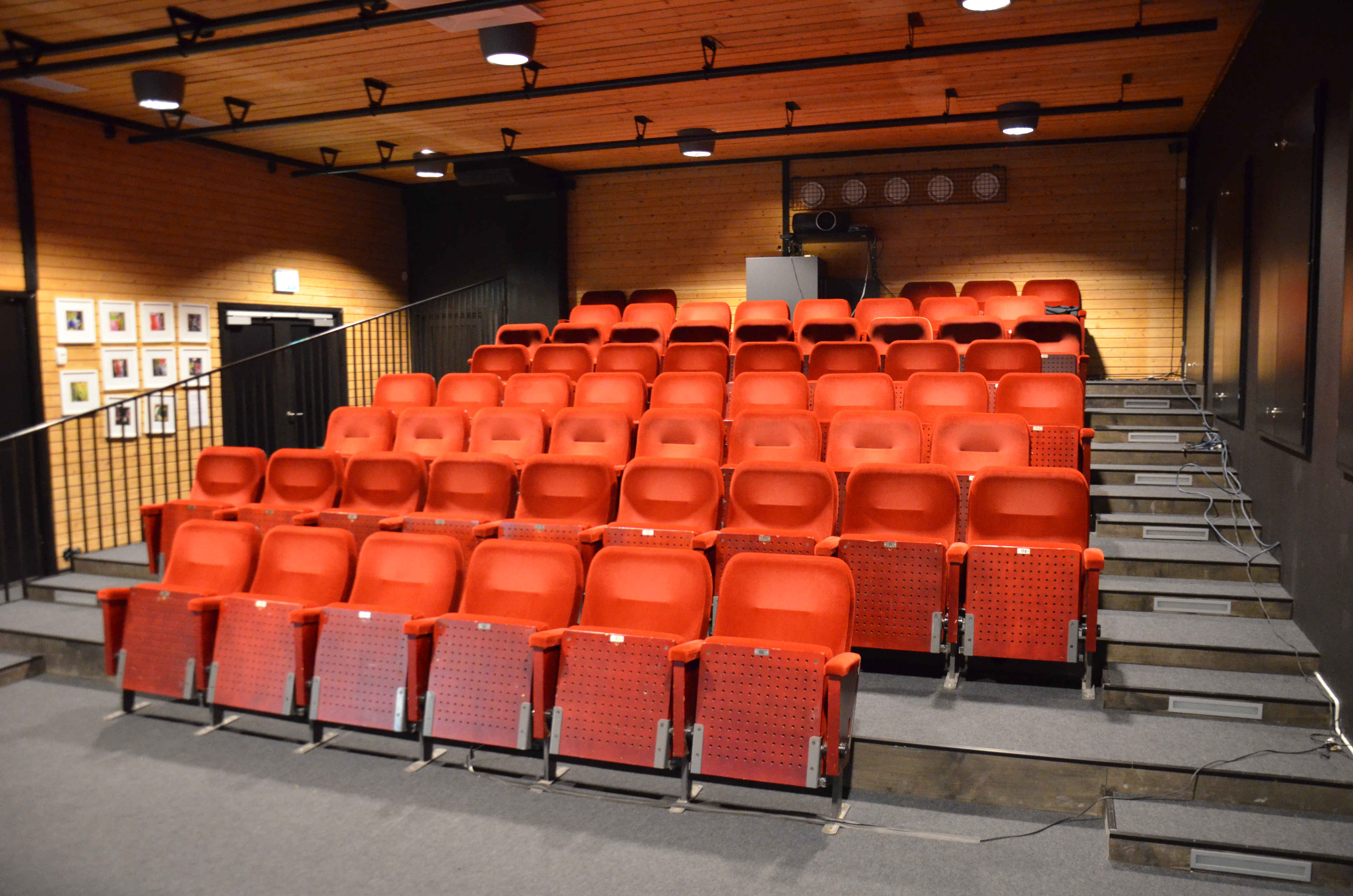 Biosalongen på Bergmancenter